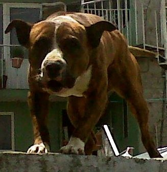 Chamuco Dog. Mexican race.